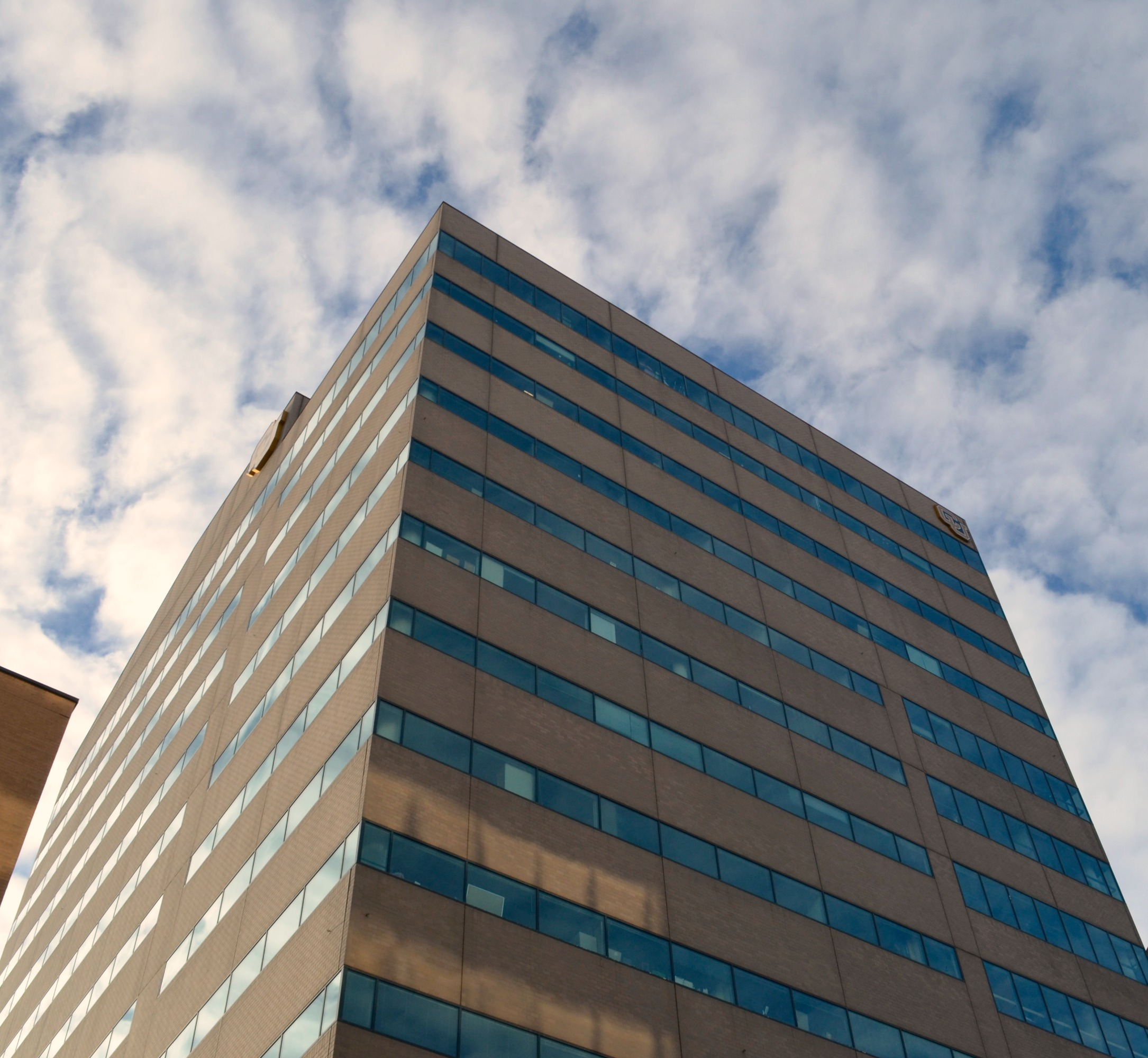 The Lawrence Street Center at 1380 Lawrence St. is an educational facility owned and managed by the University of Colorado Denver.